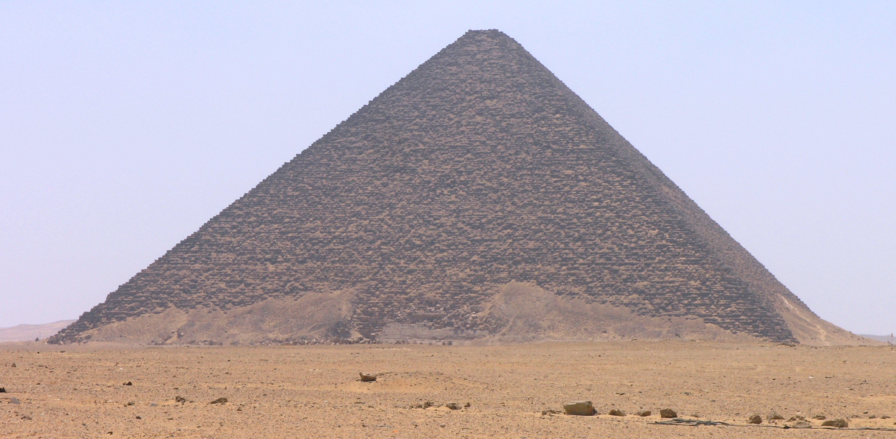 Dahshur - Red Pyramid from road